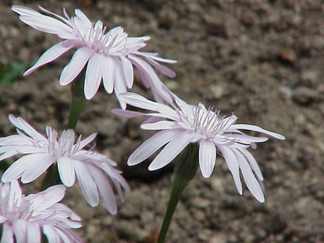 Species: Scorzonera purpurea subsp. rosea Family: Asteraceae Image No. 1